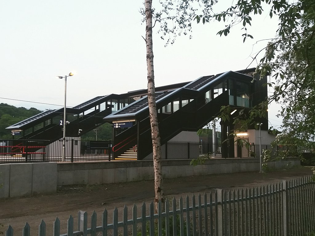 New Kirkstall Forge station